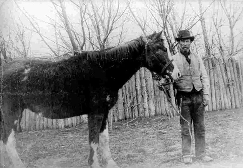 Malacara horse and John Daniel Evans (1906) in 16 October valley.